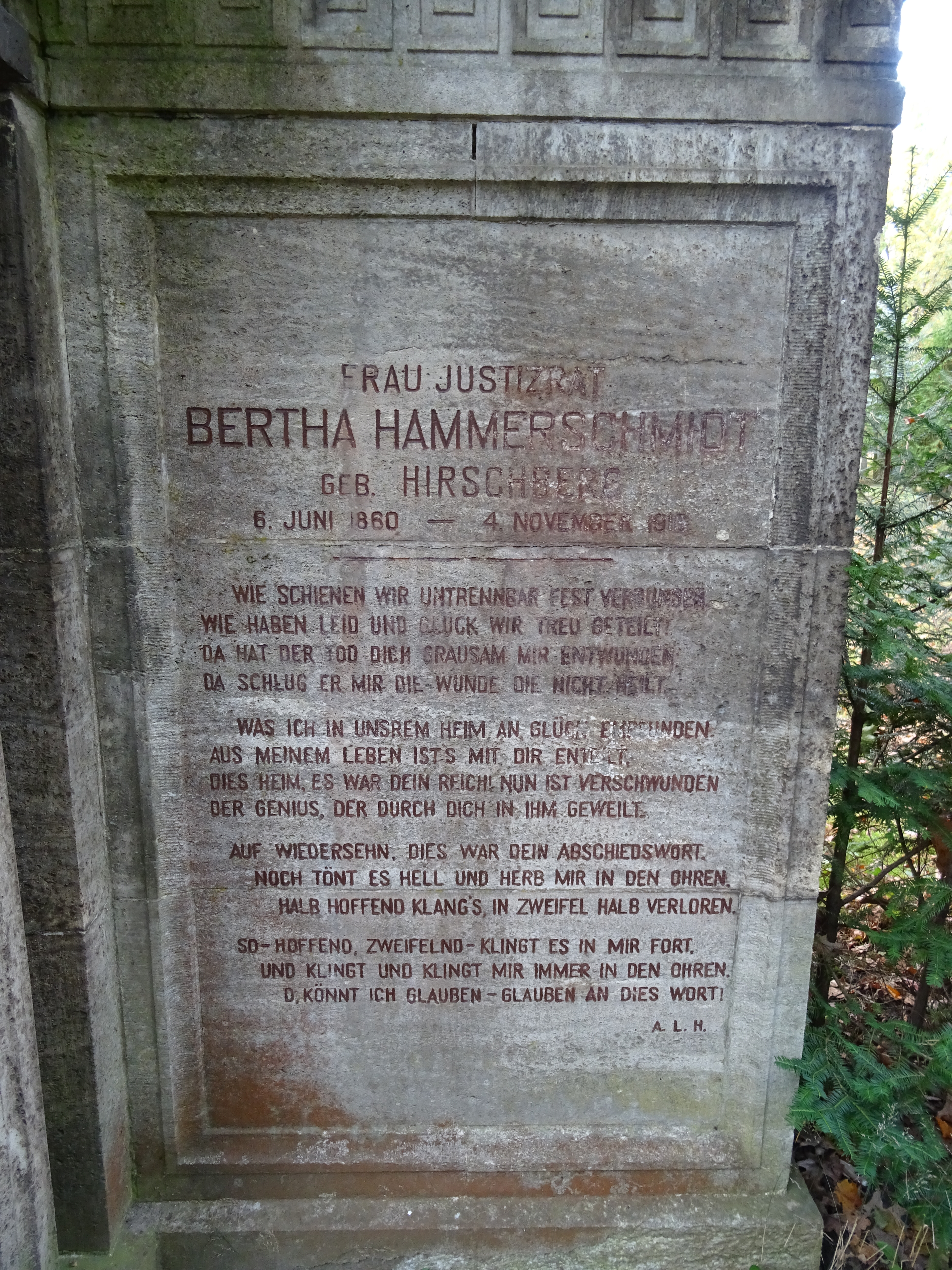 Grave of Bertha Hammerschmidt on the New Jewish Cemetery, Cottbus.